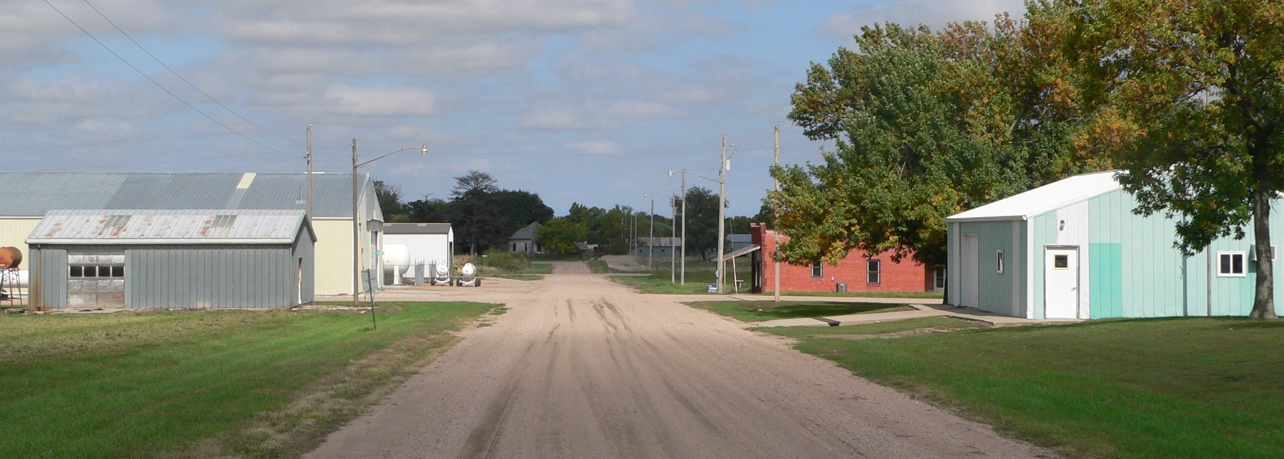 Downtown Stockham, Nebraska: Main Street, looking north toward junction with Third Street.